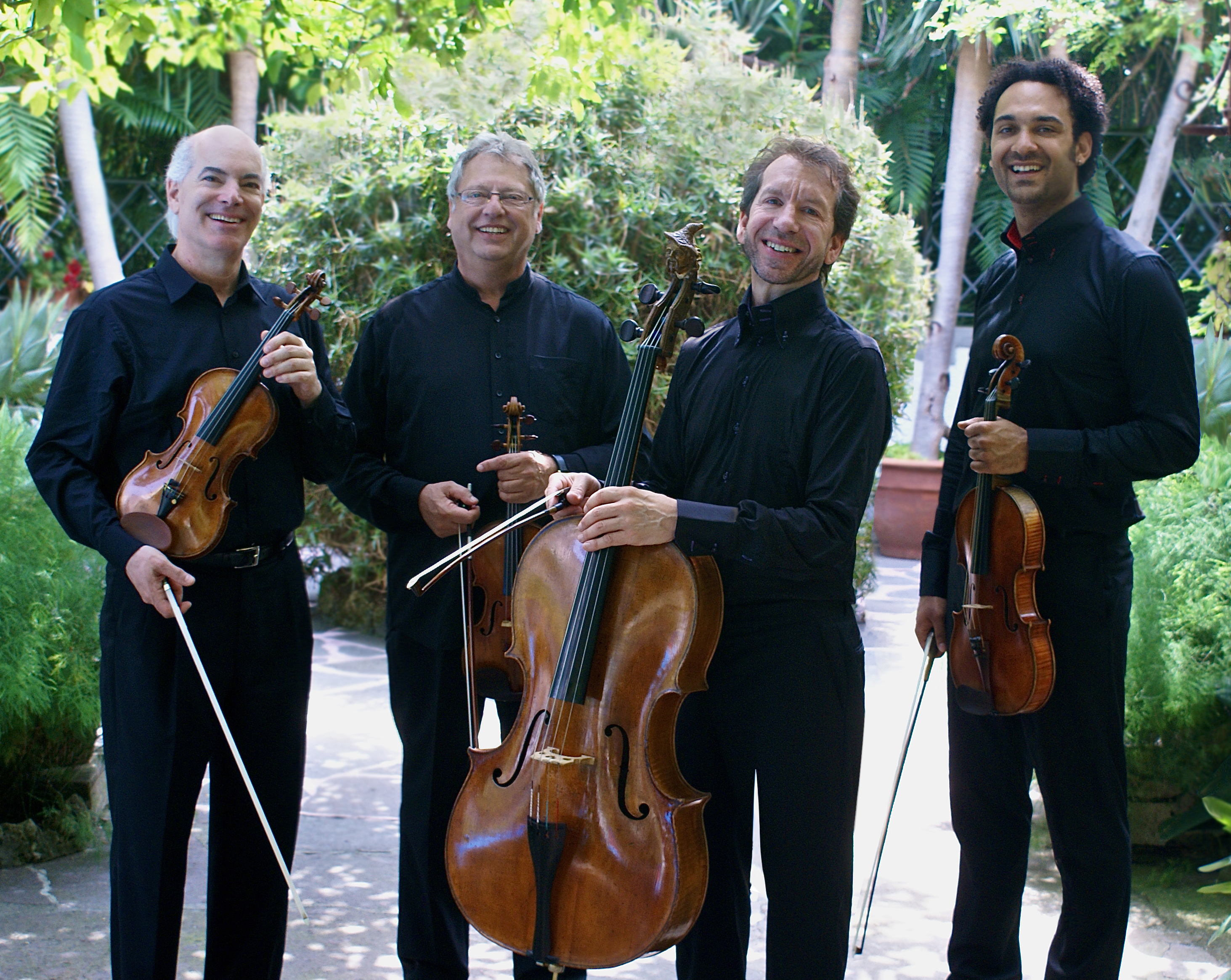 Fine Arts Quartet: Ralph Evans, Efim Boico, Juan-Miguel Hernandez, Robert Cohen